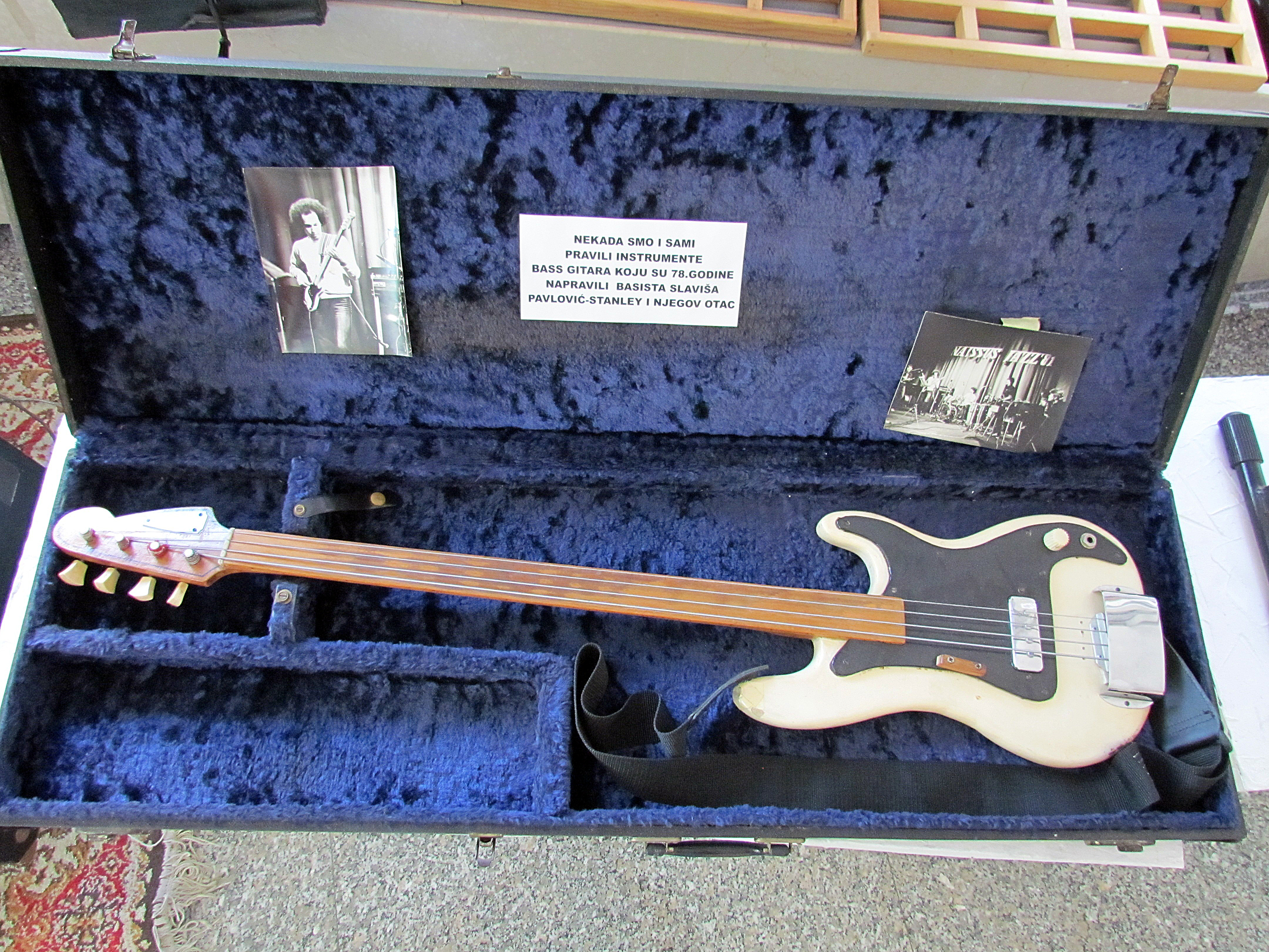 Self made bass guitar by Slaviša Pavlović in 197